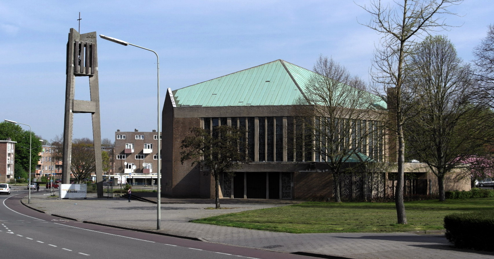 View of the Surp Karapet Church (Church of the Holy Precursor) in Maastricht, Netherlands. The church was built in 1964-66 after a design by A. Brenninkmeyer and was named Christus Hemelvaartkerk (Church of Christ's Ascension). It was originally the Roman Catholic parish church of the Maastricht-West neighbourhood of Pottenberg. Since 2012 it serves as the church of the Armenian Apostolic community.